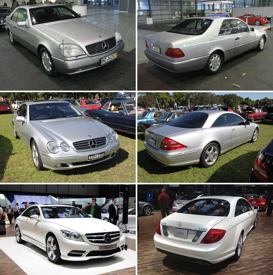 The three series (C140, C215 and C216) of the Mercedes-Benz CL-Class compared.